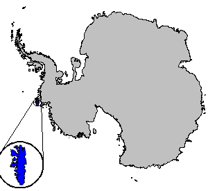 Thurston Island in relation to Antarctica. Created and uploaded by Keith Edkins